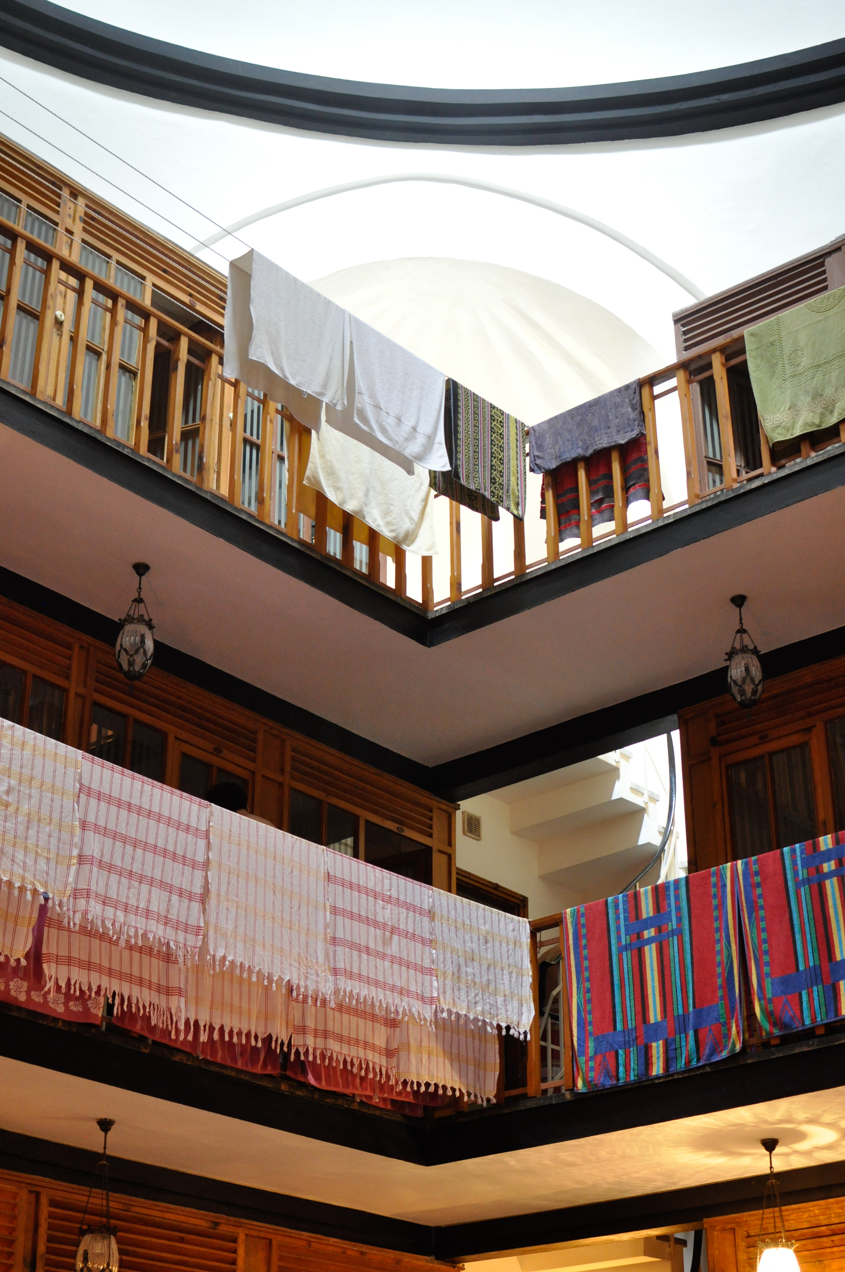 Interior of the sogukluk.